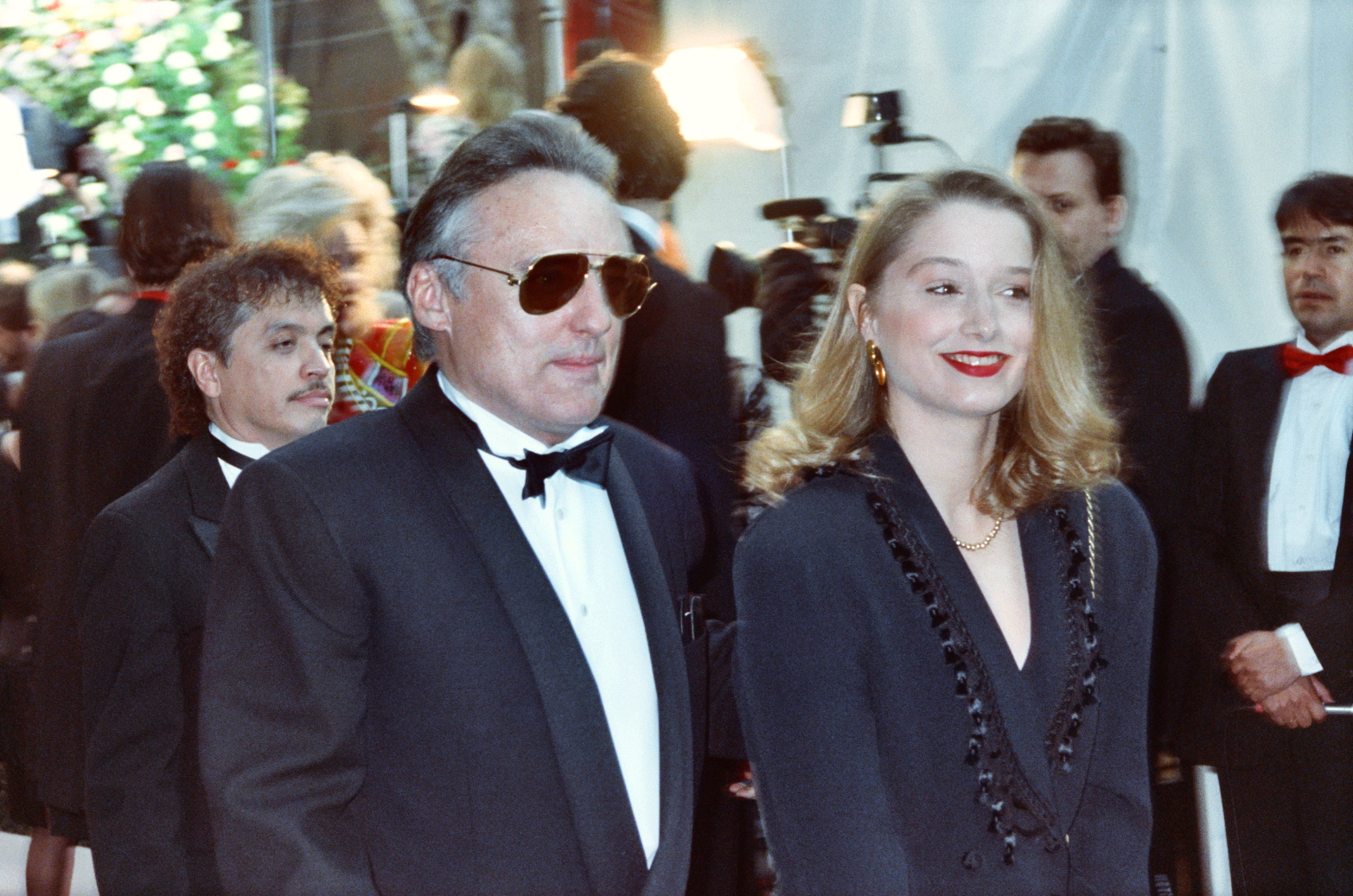 1990 Academy Awards NOTE: Permission granted to copy, publish, broadcast or post any of my photos, but please credit "photo by Alan Light" if you can. Thanks. Scanned from the original 35MM film negative.